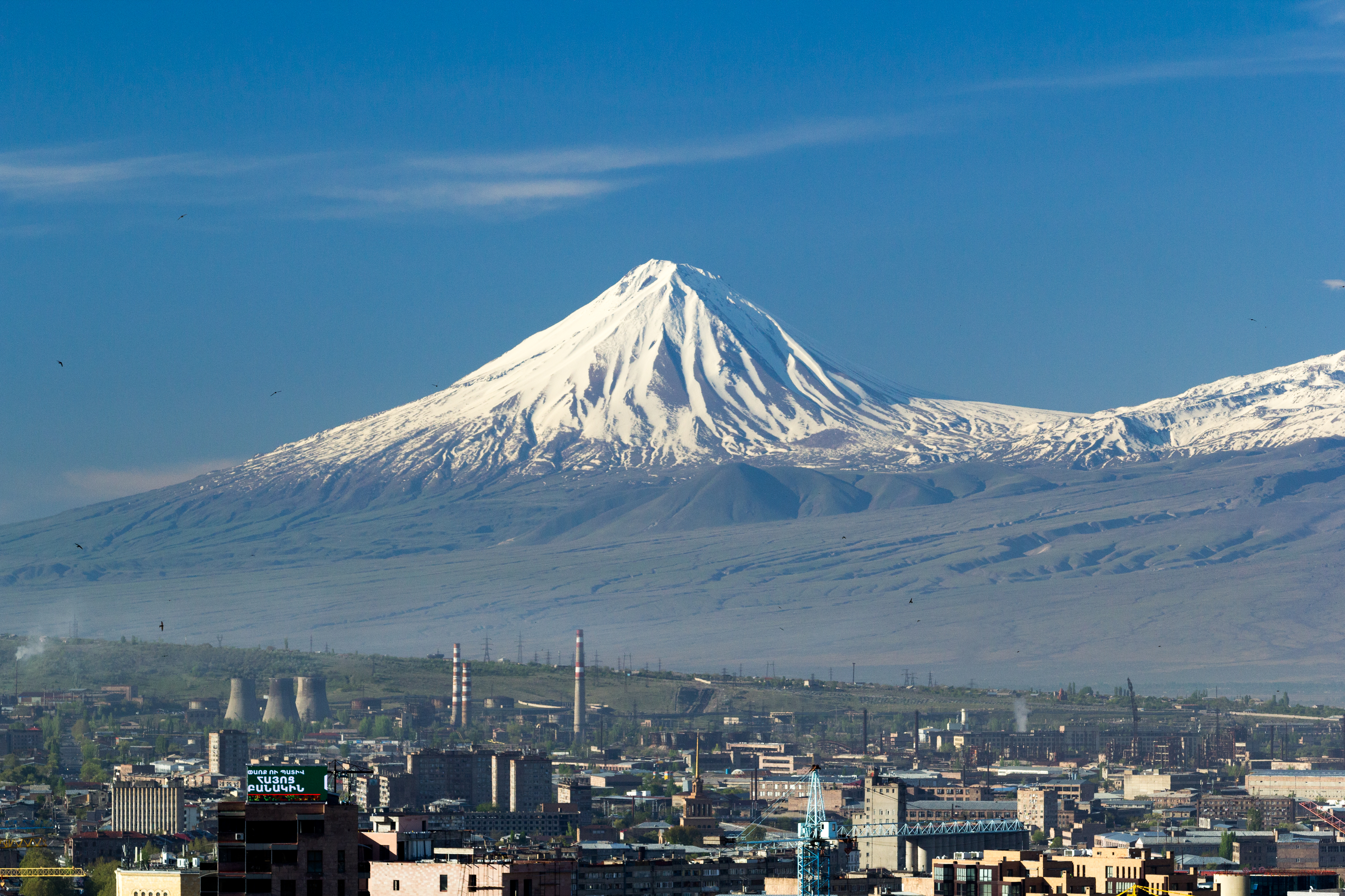 Closeup of the lesser peak of Mount Ararat, as seen from Yerevan, the capital of Armenia.